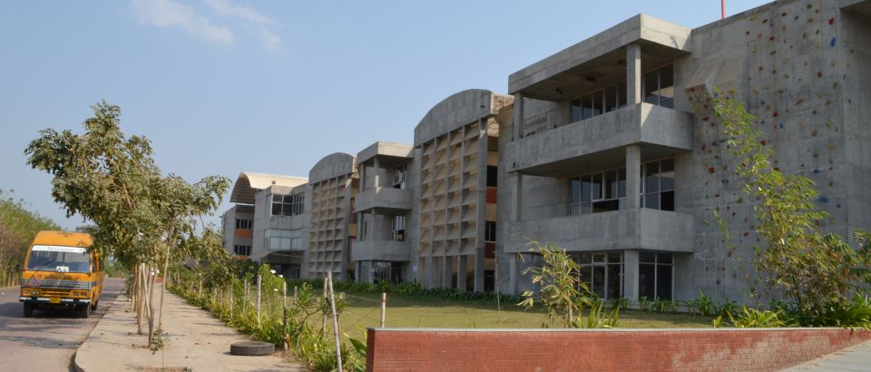 Fountainhead School Campus